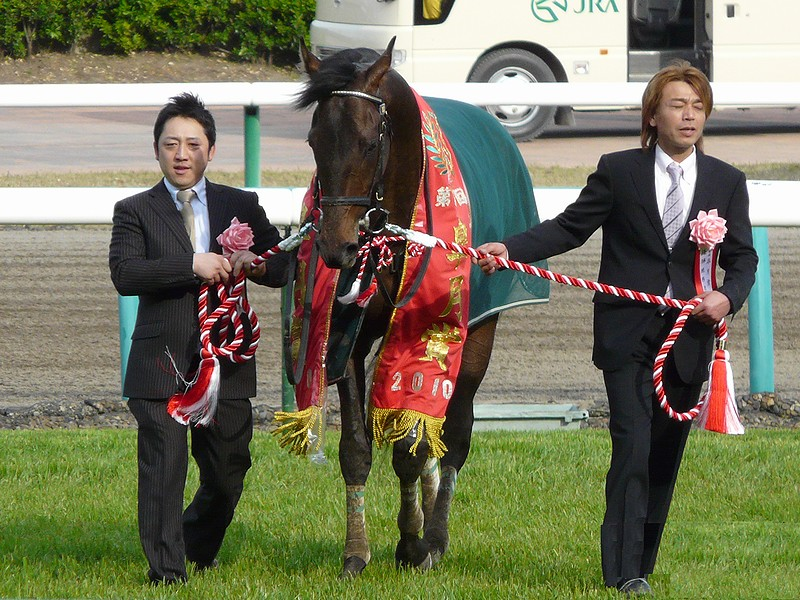 Victoire-Pisa20100418(2)